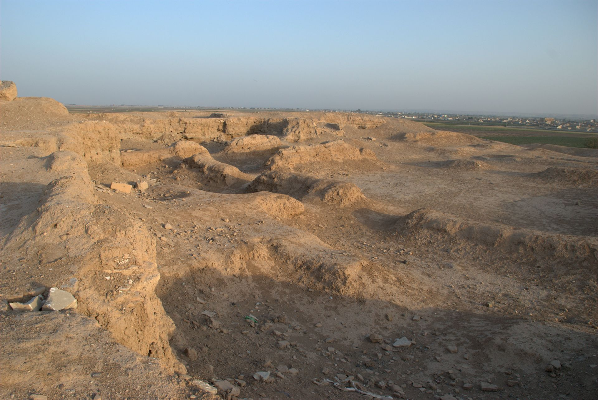 Tuttul, Tell Bia, near ar-Raqqah, Syria. Central mound to east